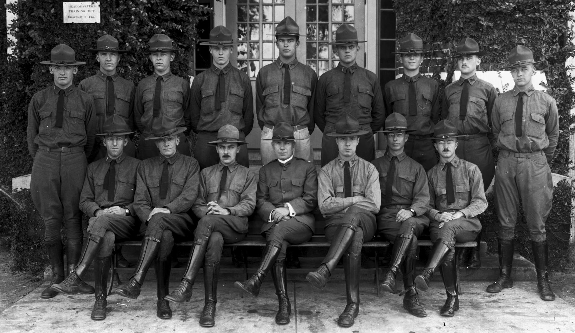 Officers in front of bldg; plaque reads "Headquarters Training Det." Photo from the University Archives from the Special Collections of the University of Florida Libraries. Citation is here, image# UF00034603.